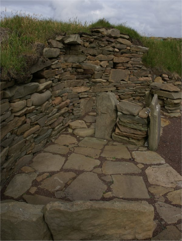 Aisled roundhouse at the archeological site of Old Scatness, Shetland, Scotland.